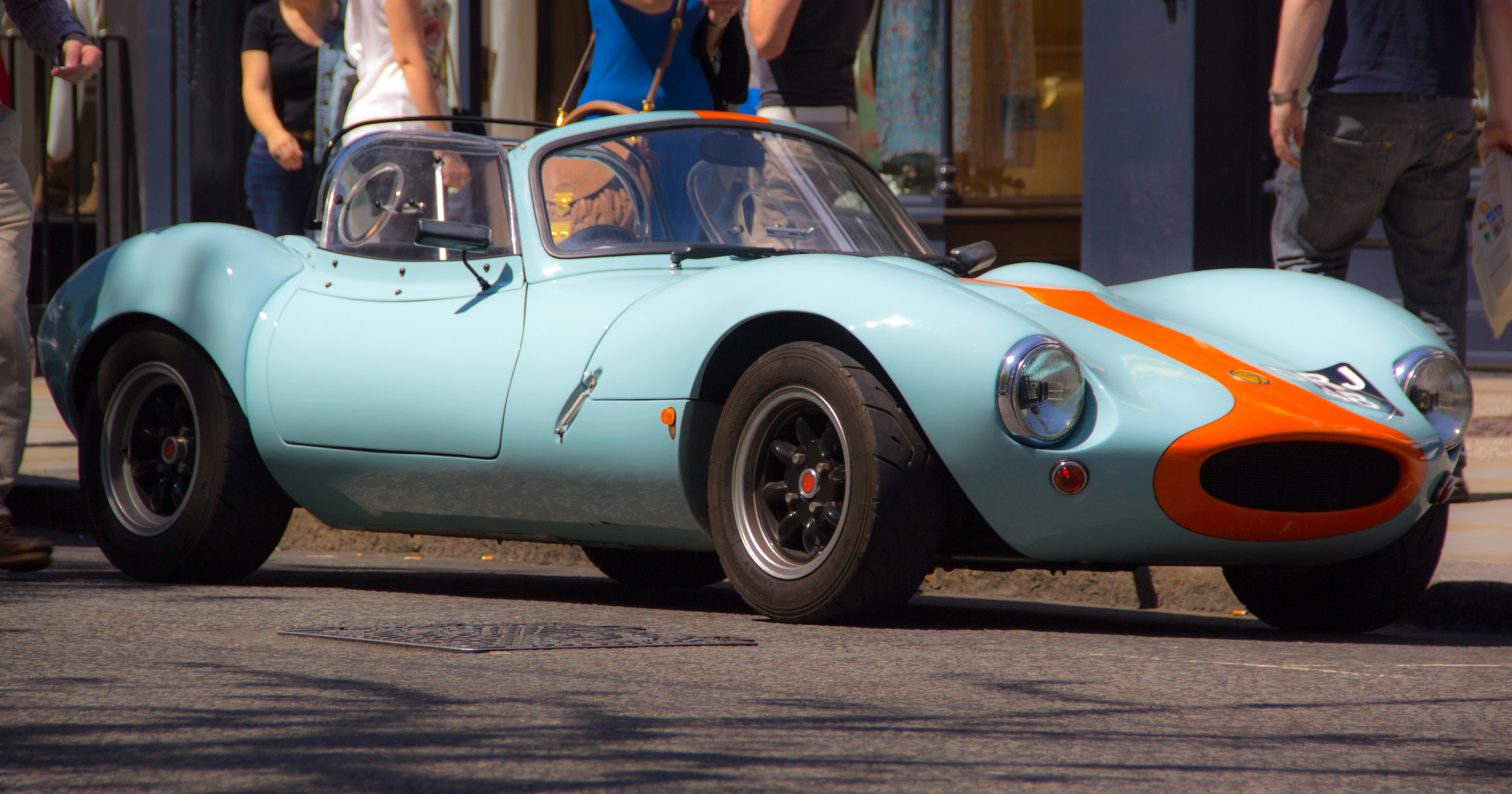 2004 Ginetta G4 with a two-litre engine